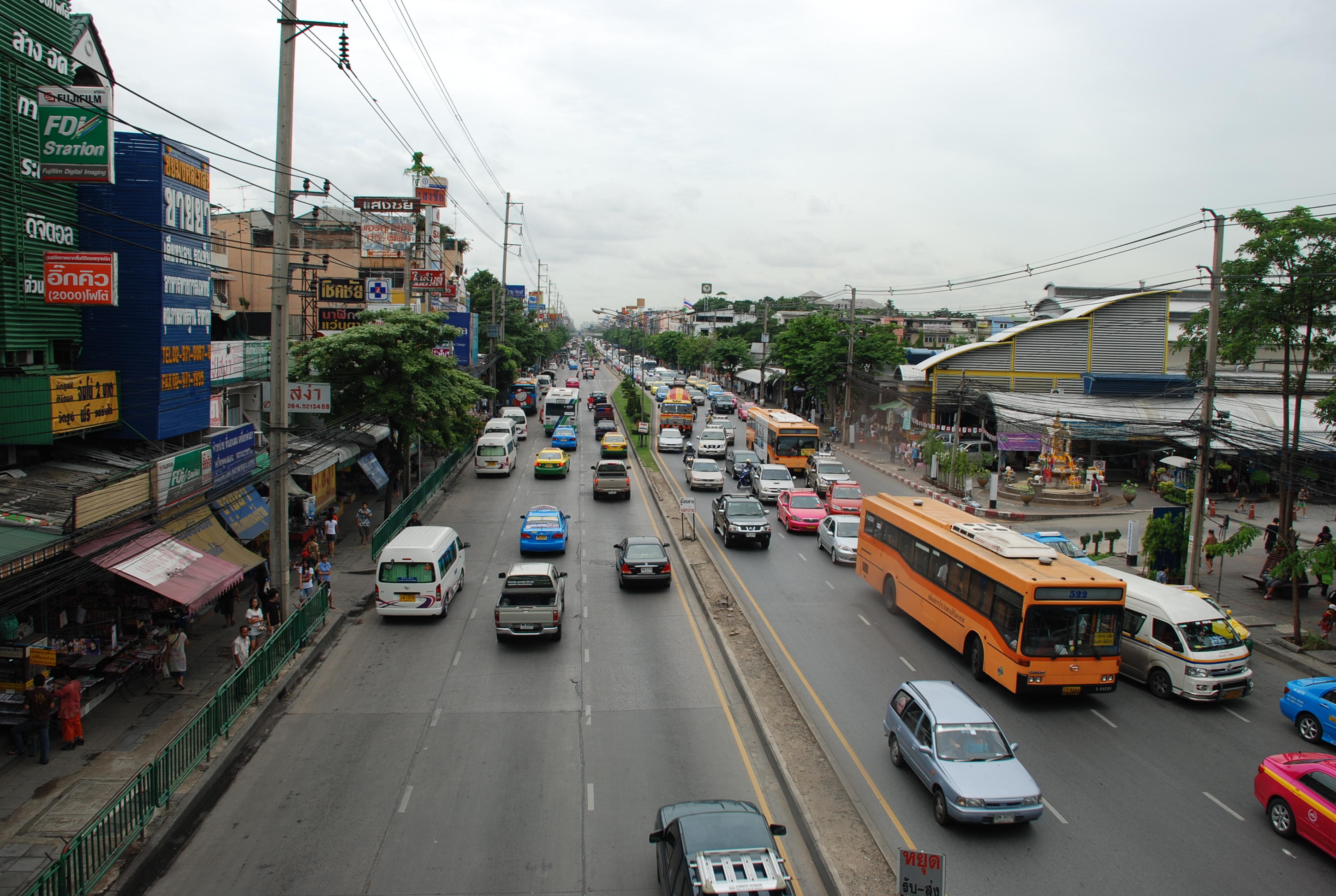 Sapanmai, looking south from overpass